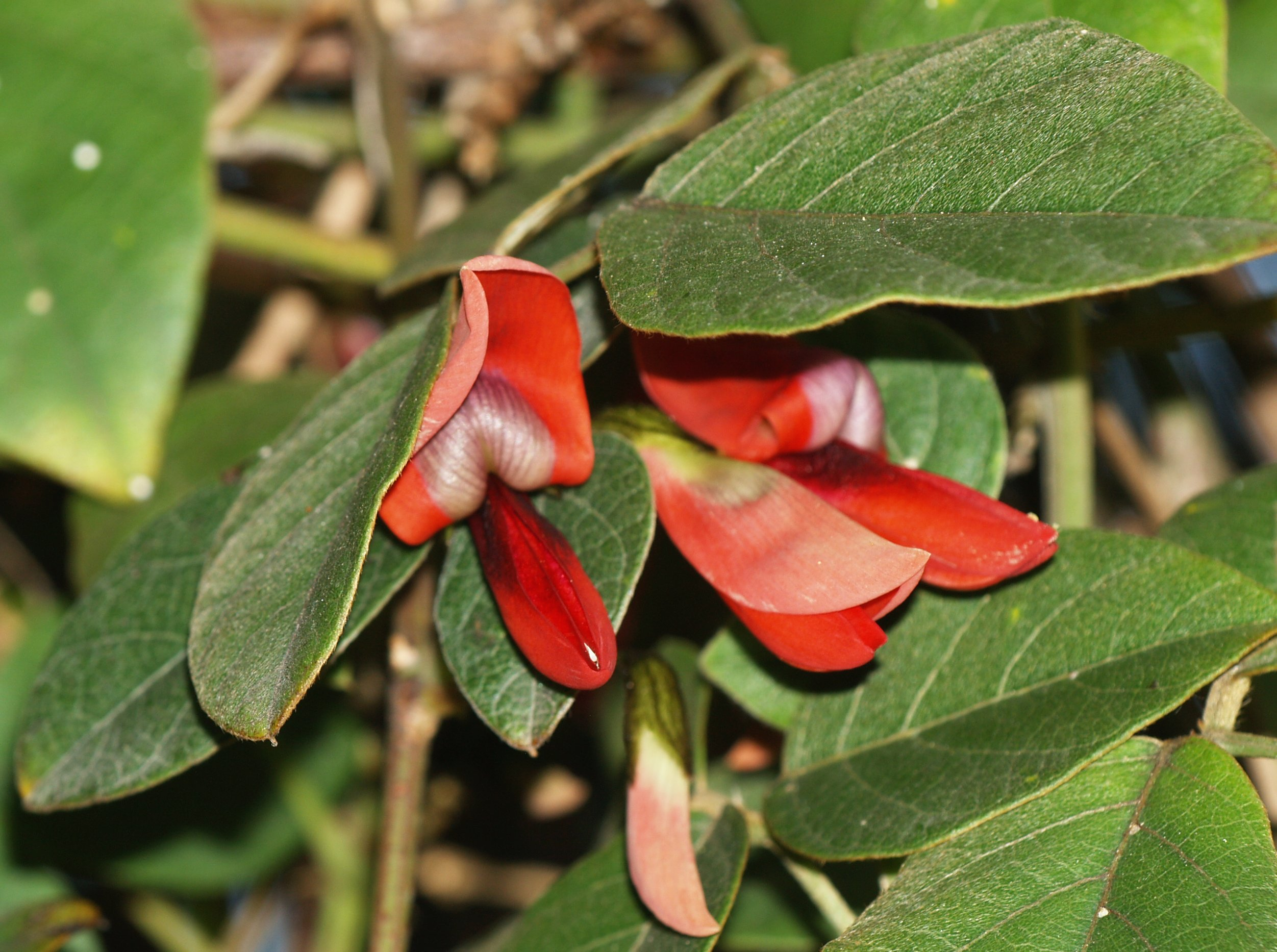 Kennedia rubicunda from the Botanical Garden (Flora) of Cologne, Germany.